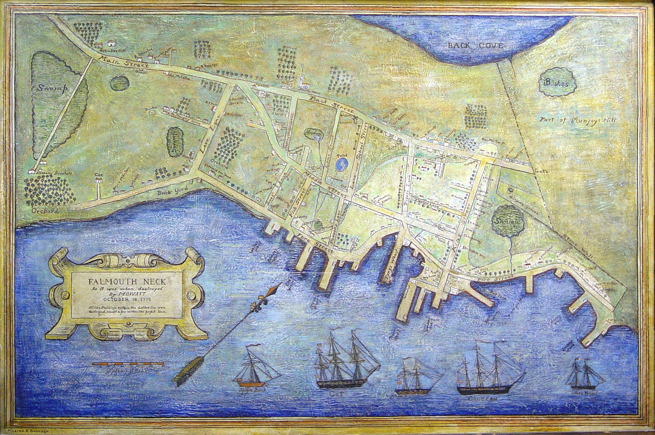 Caption: Falmouth Neck as it was when destroyed by Mowatt, October 18, 1775 This is a painted version of a map that was originally created in 1850 and published by Bailey & Noyes of Portland.